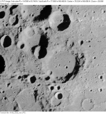 Among the many lettered craters visible in this view are 21-km Cleostratus E, on the rim at about 10 o'clock; 50-km Cleostratus F beyond that; and 35-km Cleostratus A (at top center). Directly above Cleostratus F, 56-km Boole A is cut in half by the top margin. In the lower left corner of the frame, the northwest floor of 125-km Xenophanes is dimly visible.